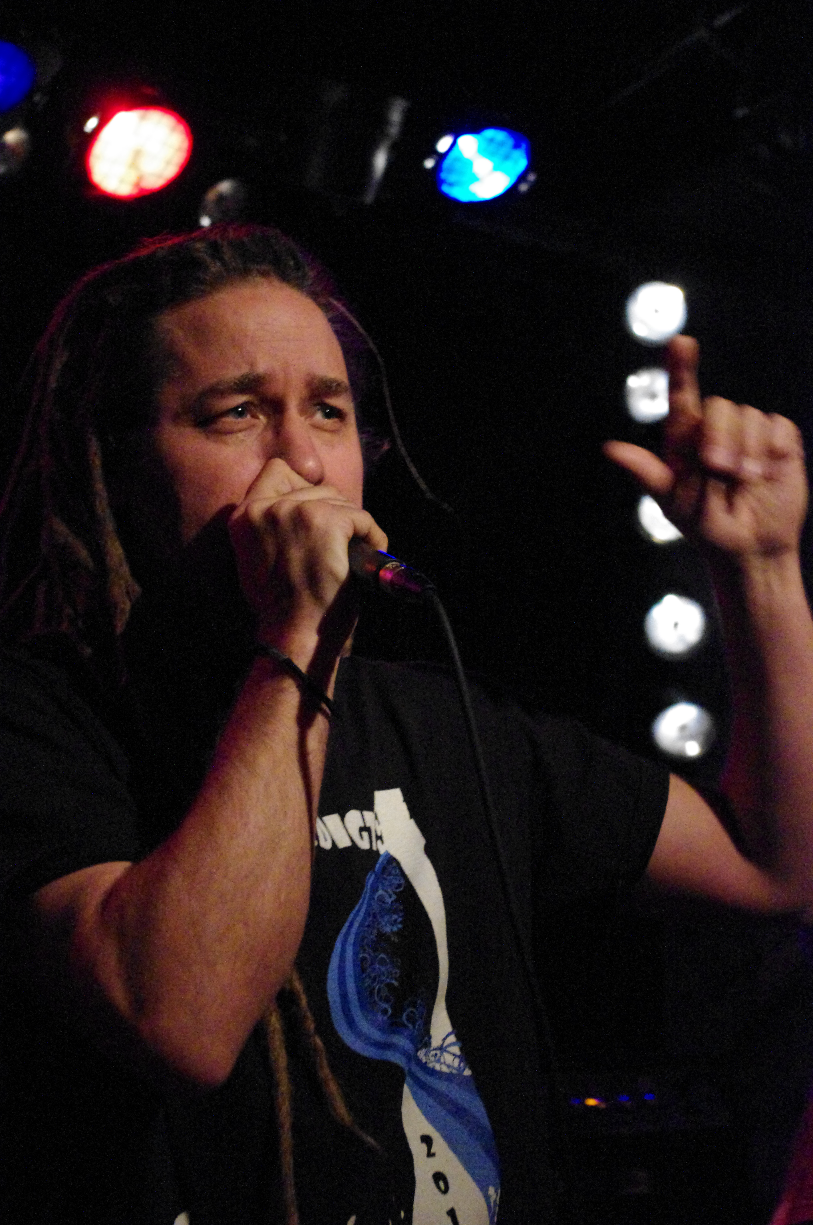 Charta 77 live at Kafé 44 2010-12-16